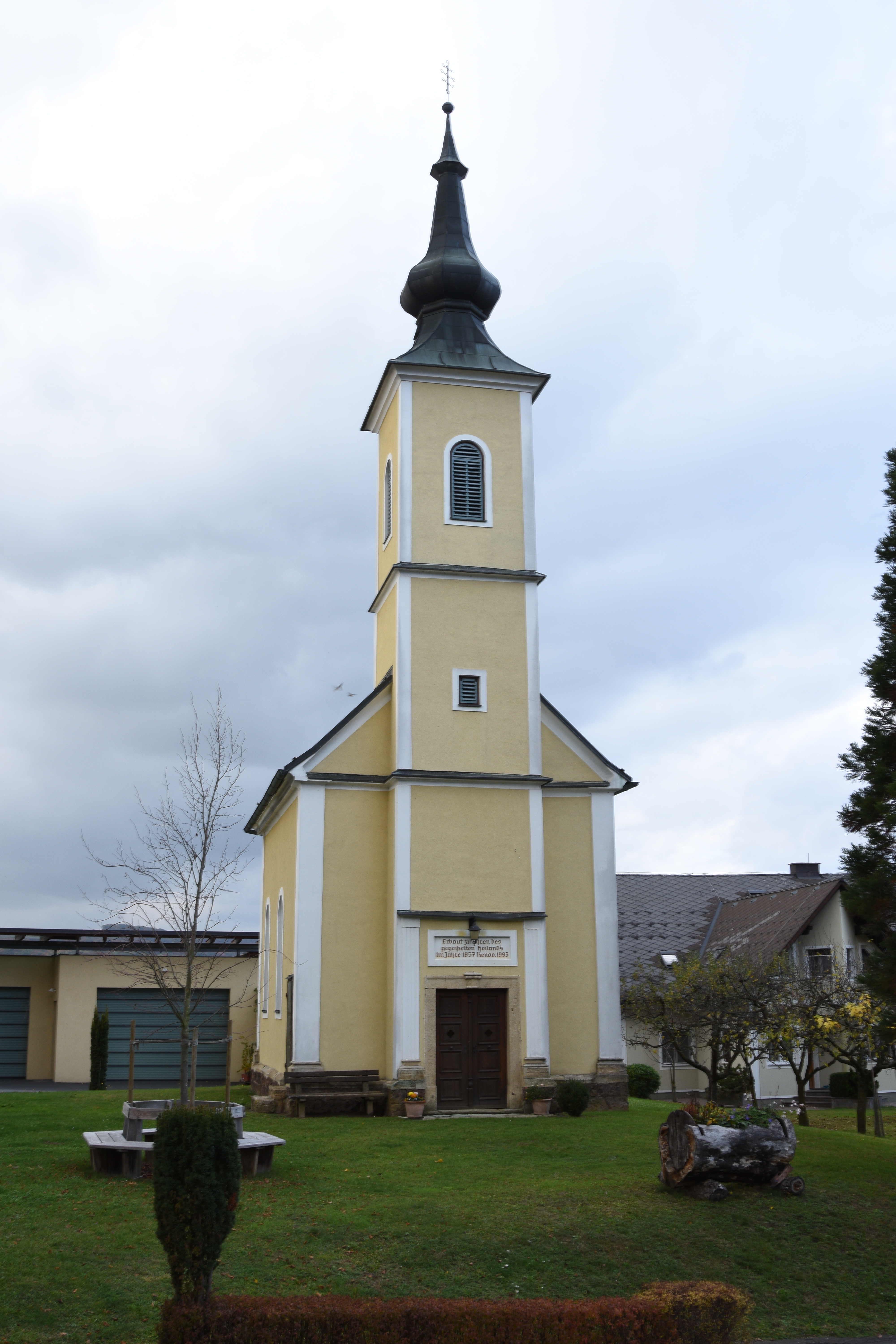 Chapel Pichla bei Radkersburg